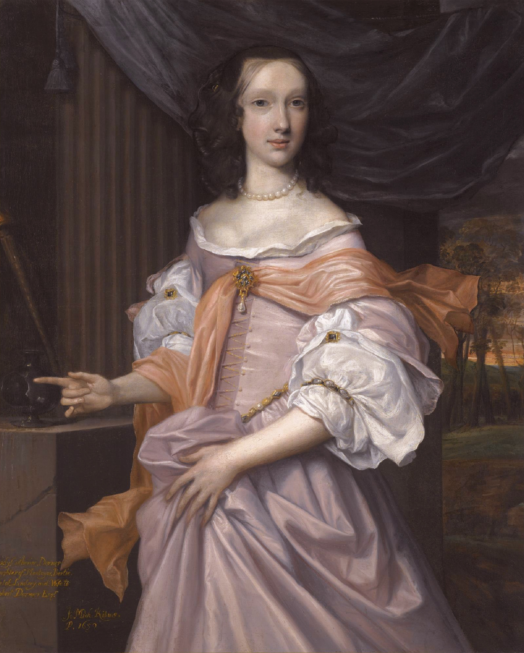 Catherine Dormer, daughter of Montagu Bertie, 2nd Earl of Lindsey (d. 1659)